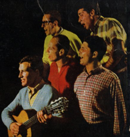 Grupo Vocal Argentino. Folk group. Argentina. Members: Chango Farías Gómez, Jorge Raúl Batalle, Luis María Batalle, Galo Hugo García, Amilcar Daniel Scalisi.